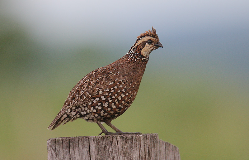 Image taken in Guanacaste, Costa Rica.